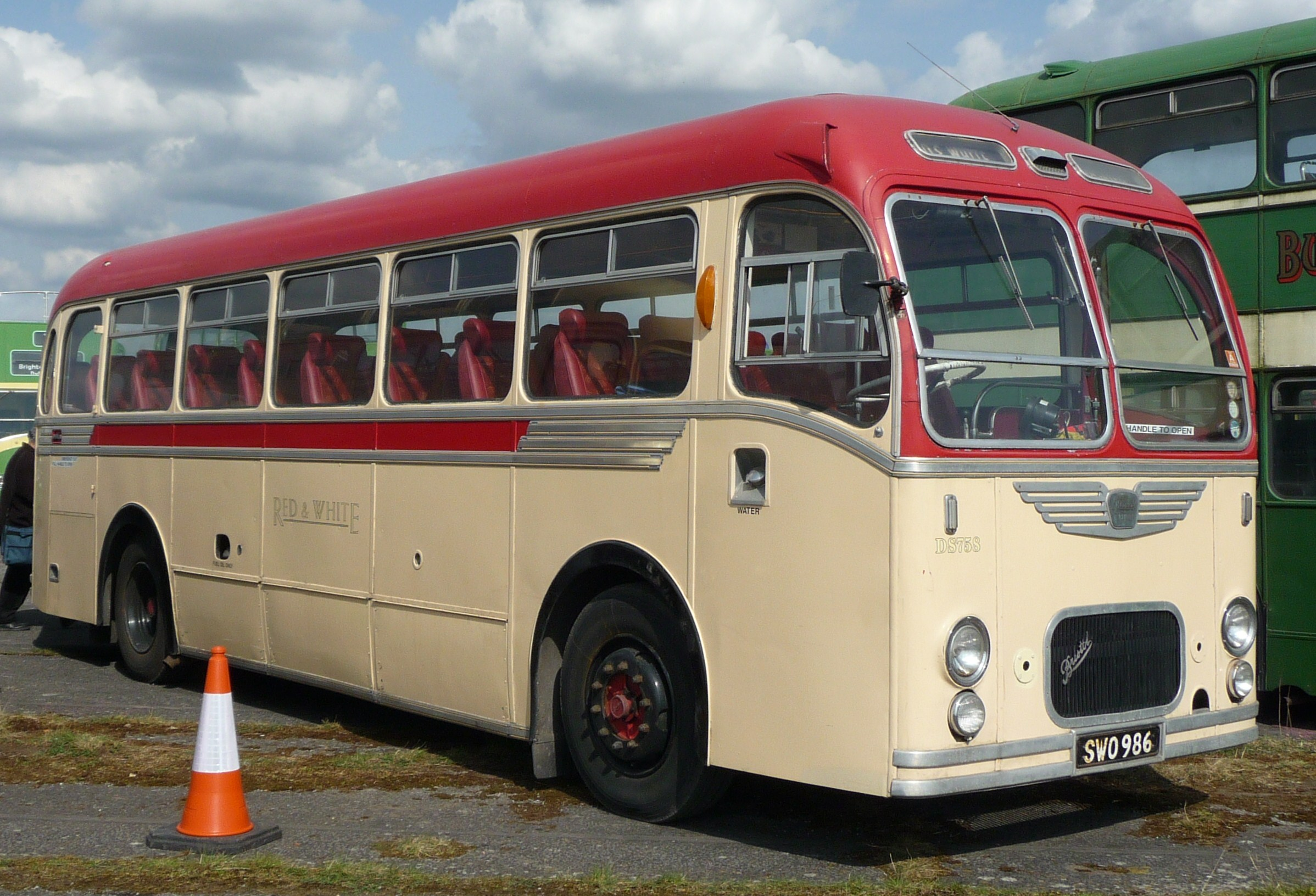 A preserved Red & White Services coach at the 2009 Cobham bus rally at Wisley Airfield. It is a Bristol MW6G with Eastern Coach Works body, registration mark SWO 986, fleet number DS758.